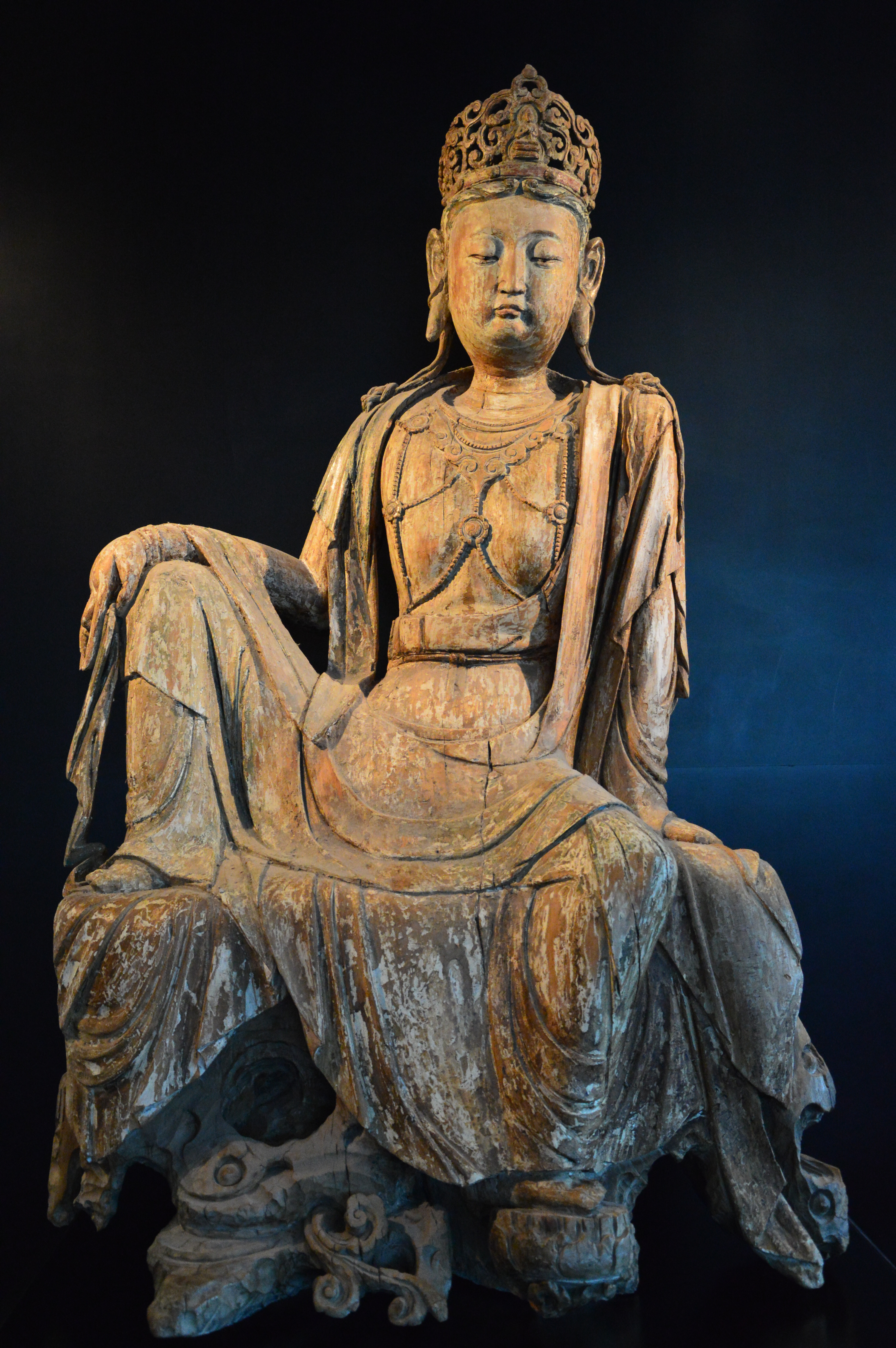 Wooden figure of Guanyin, painted with polychrome pigments, 12th to 13th century. Hong Kong Museum of Art (donated by Tsui Tsin-tong).